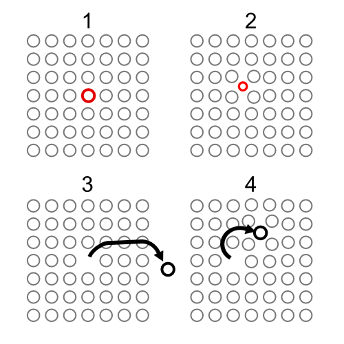 4 types of Point defects